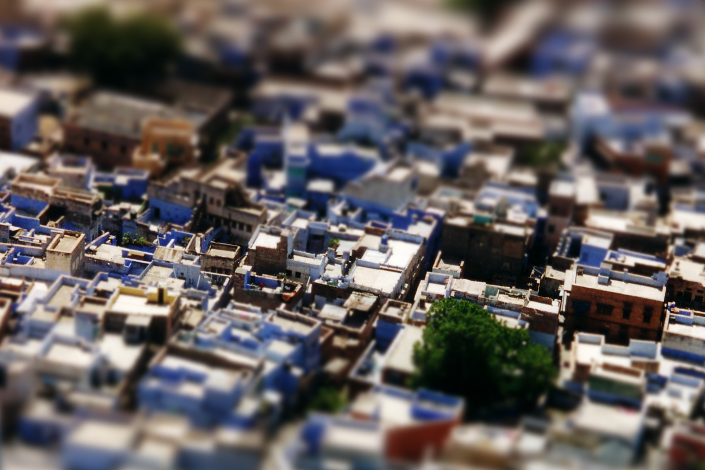 this is jodhpur, aka the blue city tilt shifted (the original is